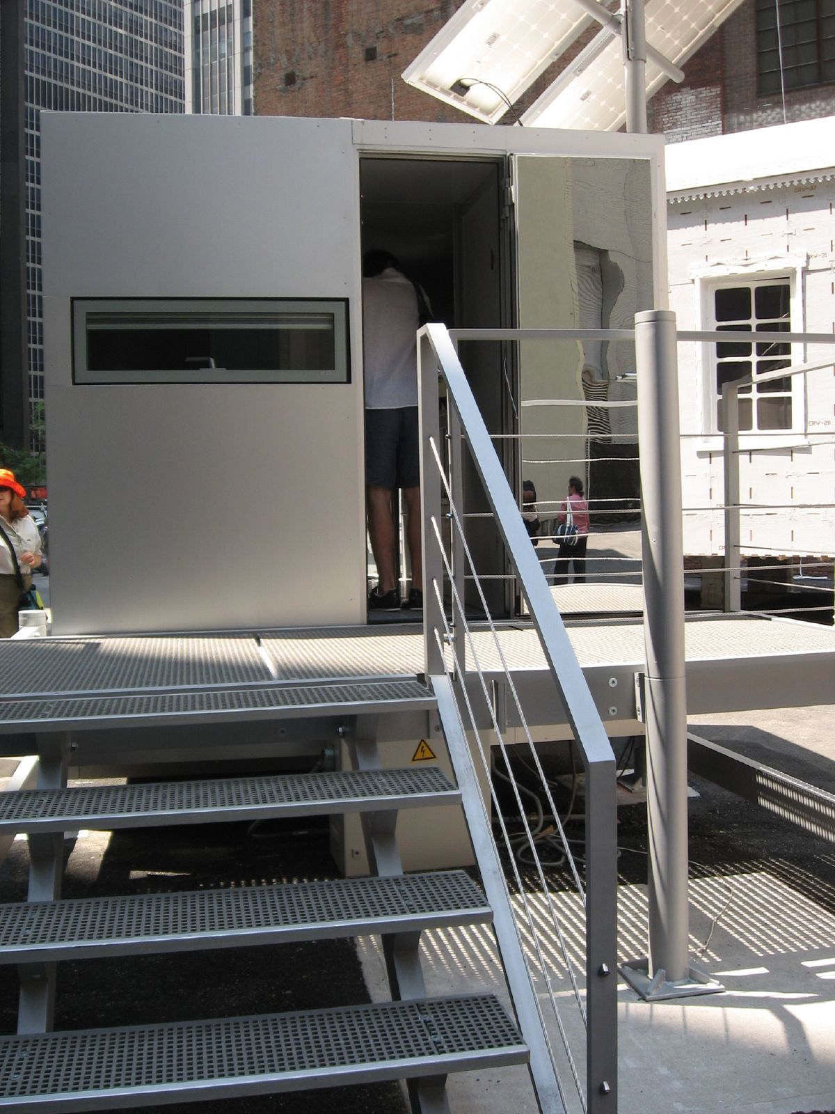 micro compact home.